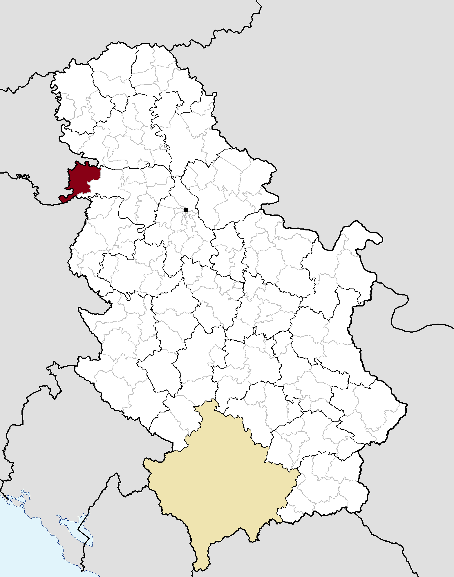 Municipal location in Serbia